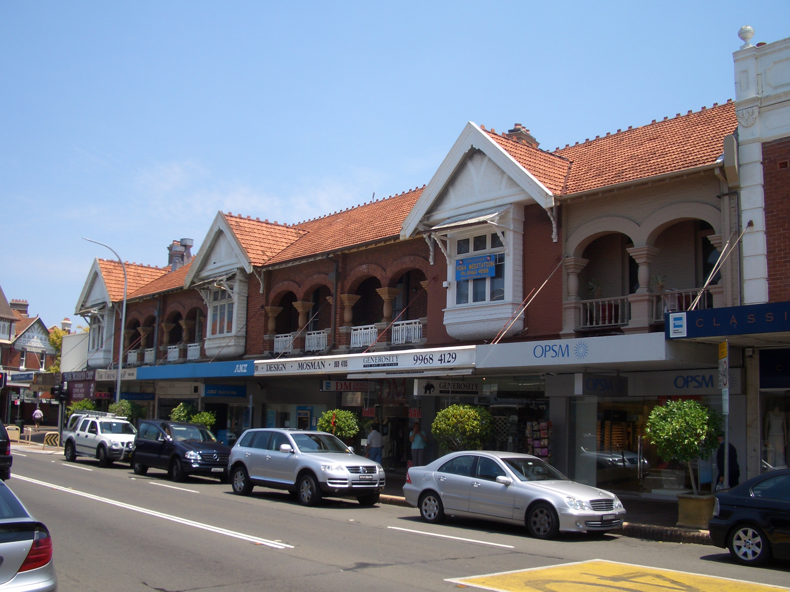 Military Road, Mosman, New South Wales